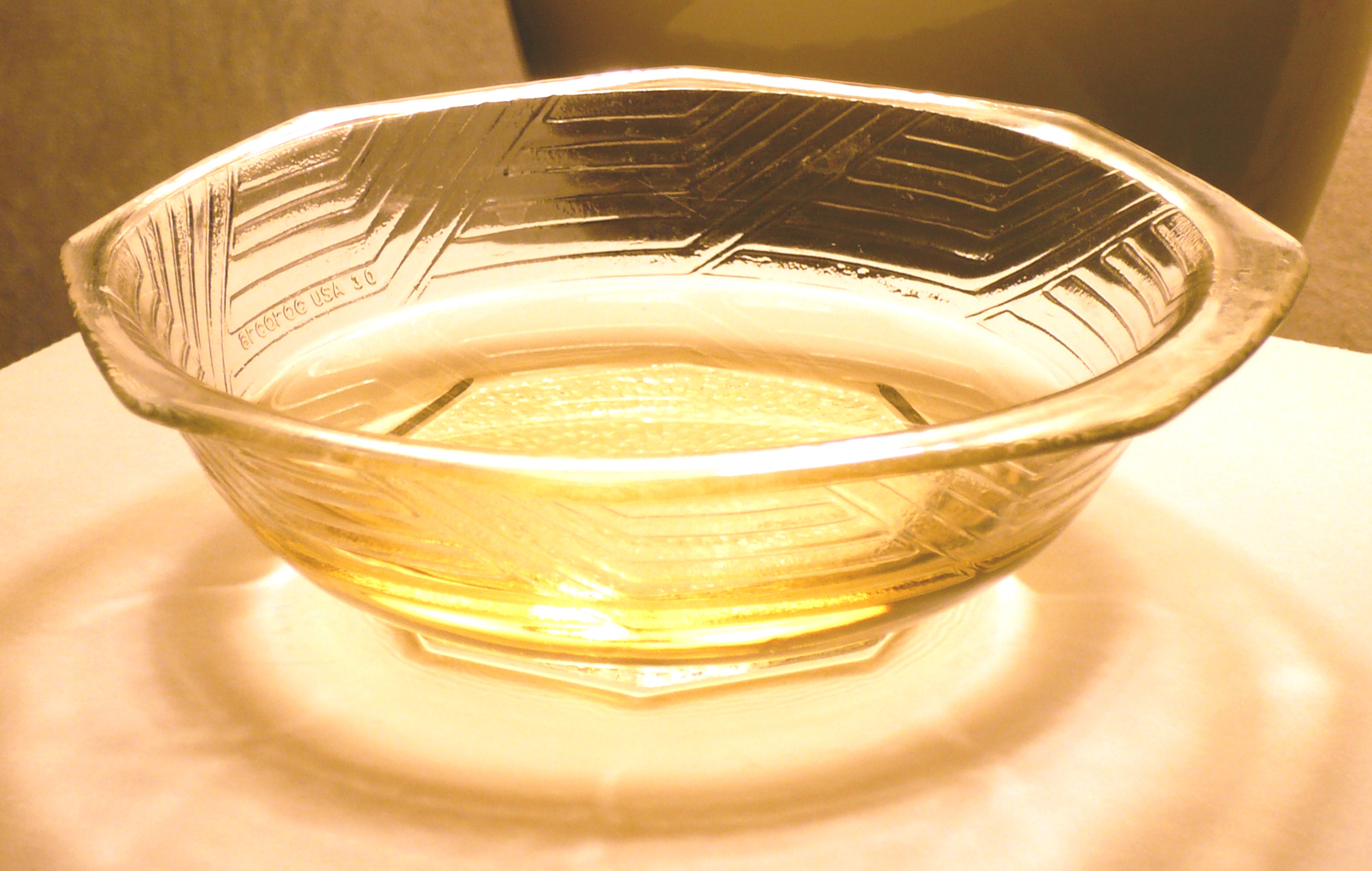 A bowl of mirin, a Japanese sweetened rice wine used for cooking. Photo taken in Kent, Ohio with a Panasonic Lumix digital camera (model DMC-LS75). The mirin was purchased in a Cuyahoga Falls, Ohio Korean grocery store.